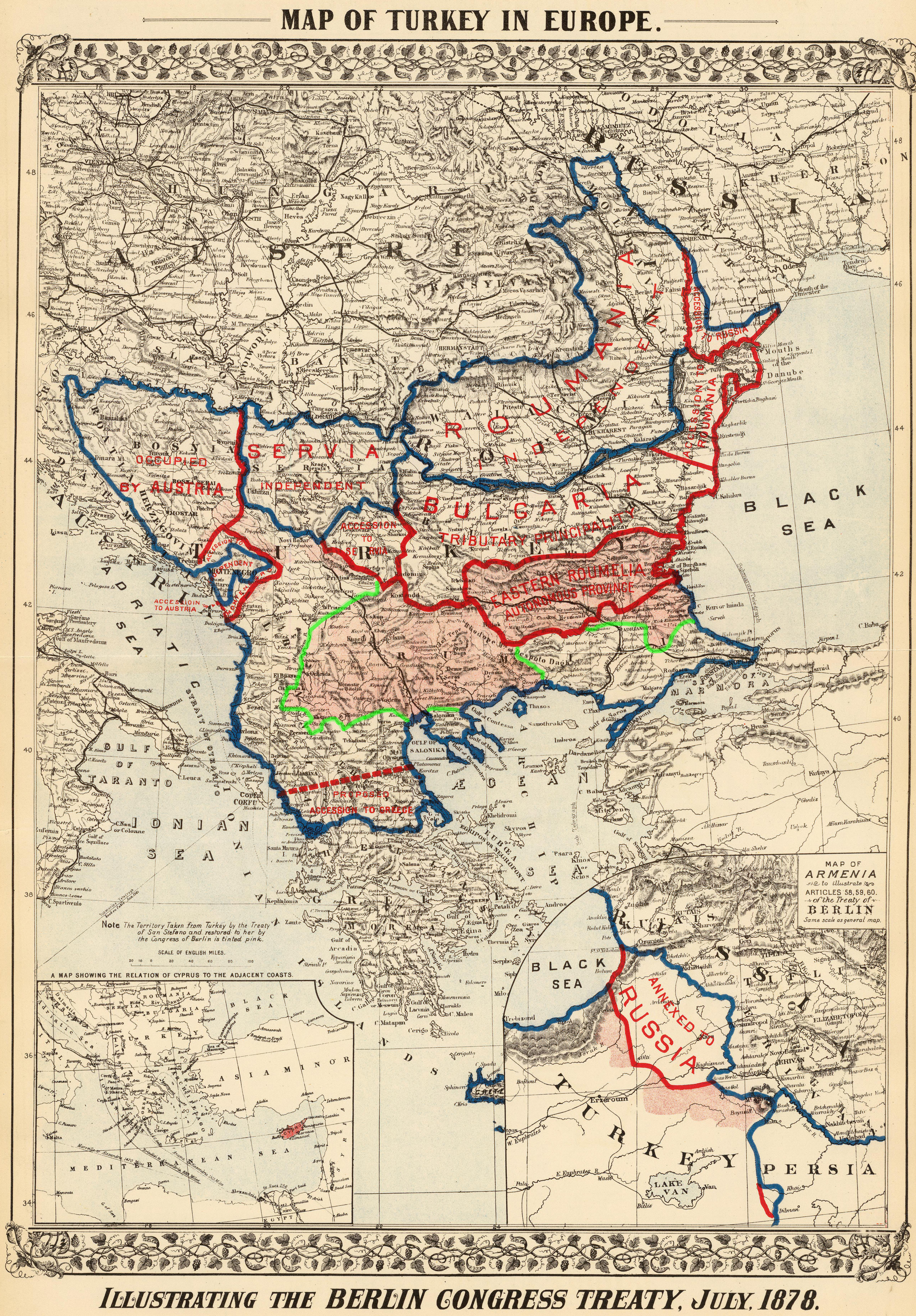 Map of European Turkey, illustrating the results of the Treaty of Berlin from 1878, which revised the Treaty of San Stefano. Macedonia and Adrianople areas, which was given back to the Ottomans are shown with green frontiers.